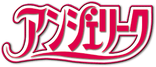 Logo for Koei/Ruby Party's Angelique (アンジェリーク) . This image is an edited version of one found on Koei's Gamecity website.